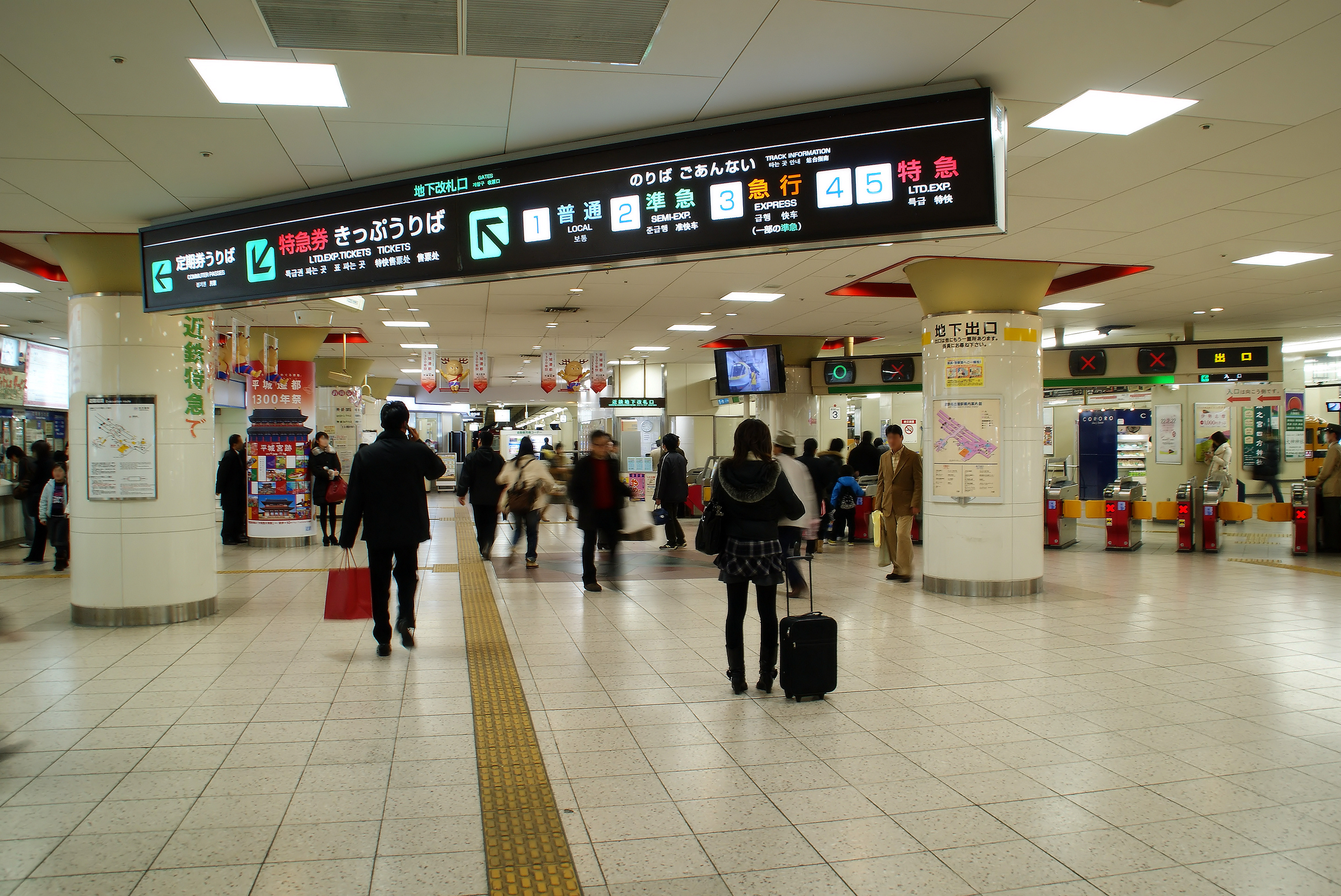 Kintetsu Corporation, Under Ground Ticket Gate of Kintetsu Nagoya Station.(Nakamura Ward, Nagoya City, Aichi Prefecture, Japan)